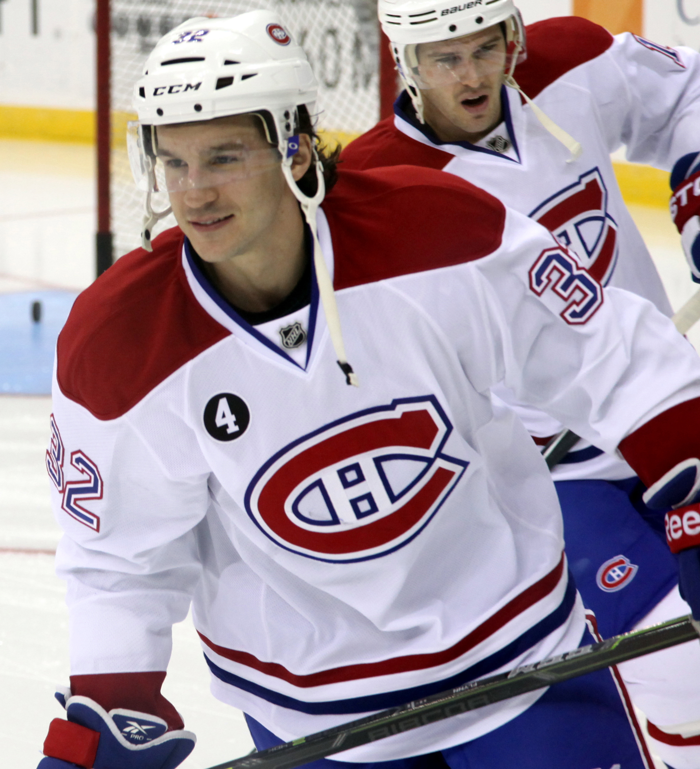 Brian Flynn in April 2015.